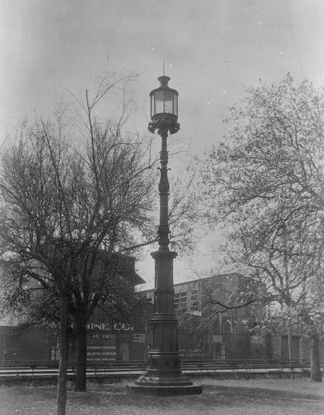 Old Harbor Beacon in 1934, Savannah (Chatham County, Georgia) cropped This file comes from the Historic American Buildings Survey (HABS), Historic American Engineering Record (HAER) or Historic American Landscapes Survey (HALS). These are programs of the National Park Service established for the purpose of documenting historic places. Records consist of measured drawings, archival photographs, and written reports. When reusing please credit: Library of Congress, Prints & Photographs Division, GA,26-SAV,23-1 This tag does not indicate the copyright status of the attached work. A normal copyright tag is still required. See Commons:Licensing. This work is in the public domain in the United States because it is a work prepared by an officer or employee of the United States Government as part of that person’s official duties under the terms of Title 17, Chapter 1, Section 105 of the US Code. Note: This only applies to original works of the Federal Government and not to the work of any individual U.S. state, territory, commonwealth, county, municipality, or any other subdivision. This template also does not apply to postage stamp designs published by the United States Postal Service since 1978. (See § 313.6(C)(1) of Compendium of U.S. Copyright Office Practices). It also does not apply to certain US coins; see The US Mint Terms of Use. This file has been identified as being free of known restrictions under copyright law, including all related and neighboring rights.